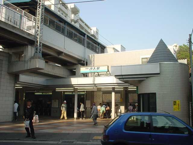 Keikyu Shioiri station